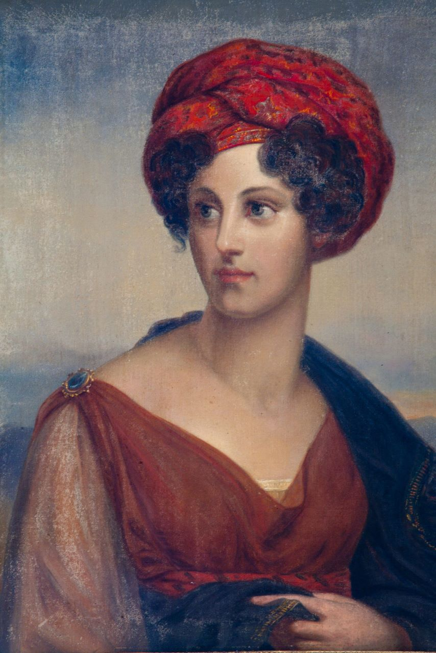 Portrait of Dorota de Talleyrand-Périgord (Dorothea von Kurland, Herzogin von Dino-Sagan) by François Gérard (1816)